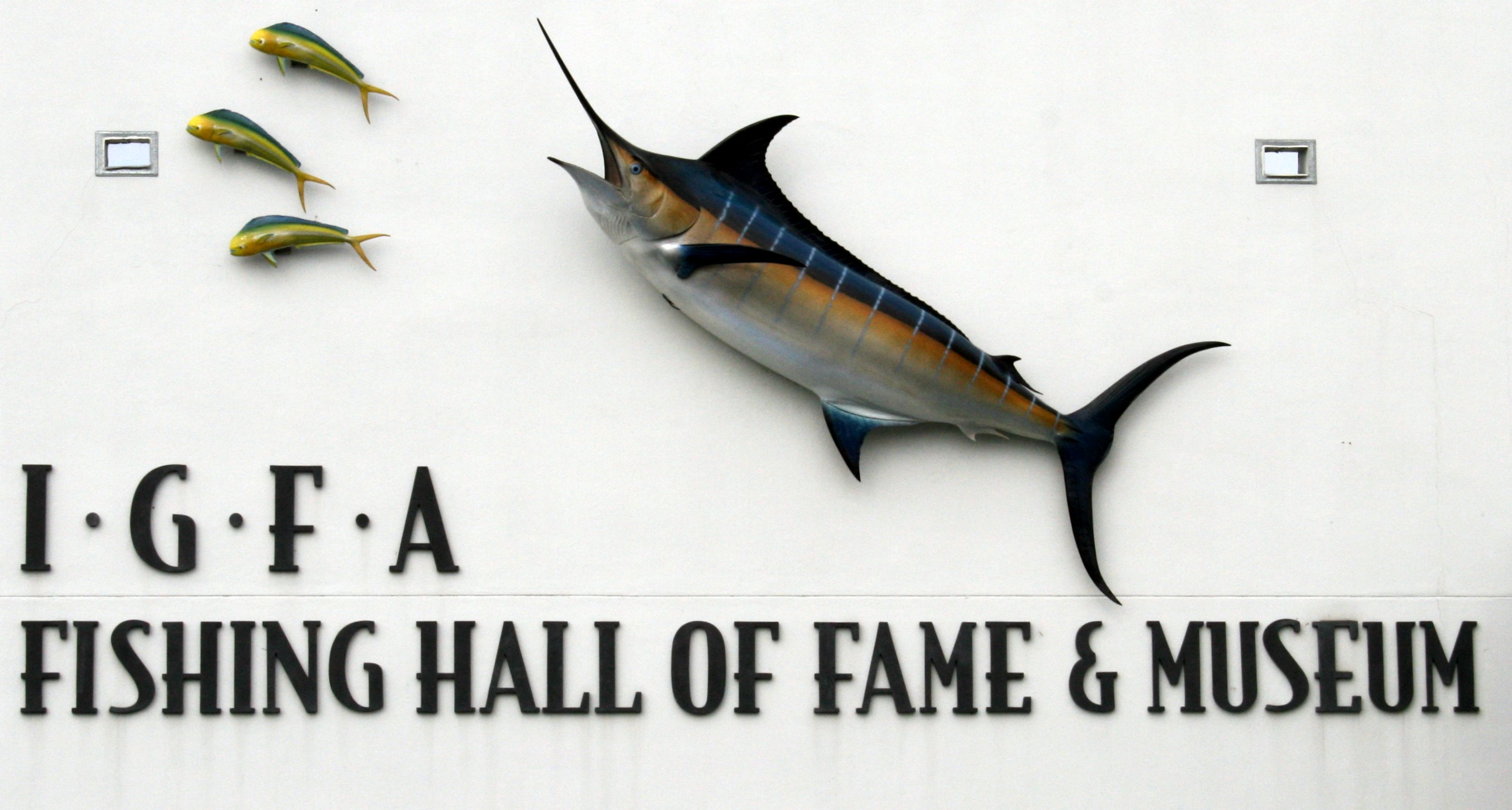 Photo of the front of the IGFA Hall of Fame and Museum in Dania Beach, FL. Zoomed in to capture the name and art on the main entrance wall. --Douglas Whitaker 22:45, 29 December 2006 (UTC)